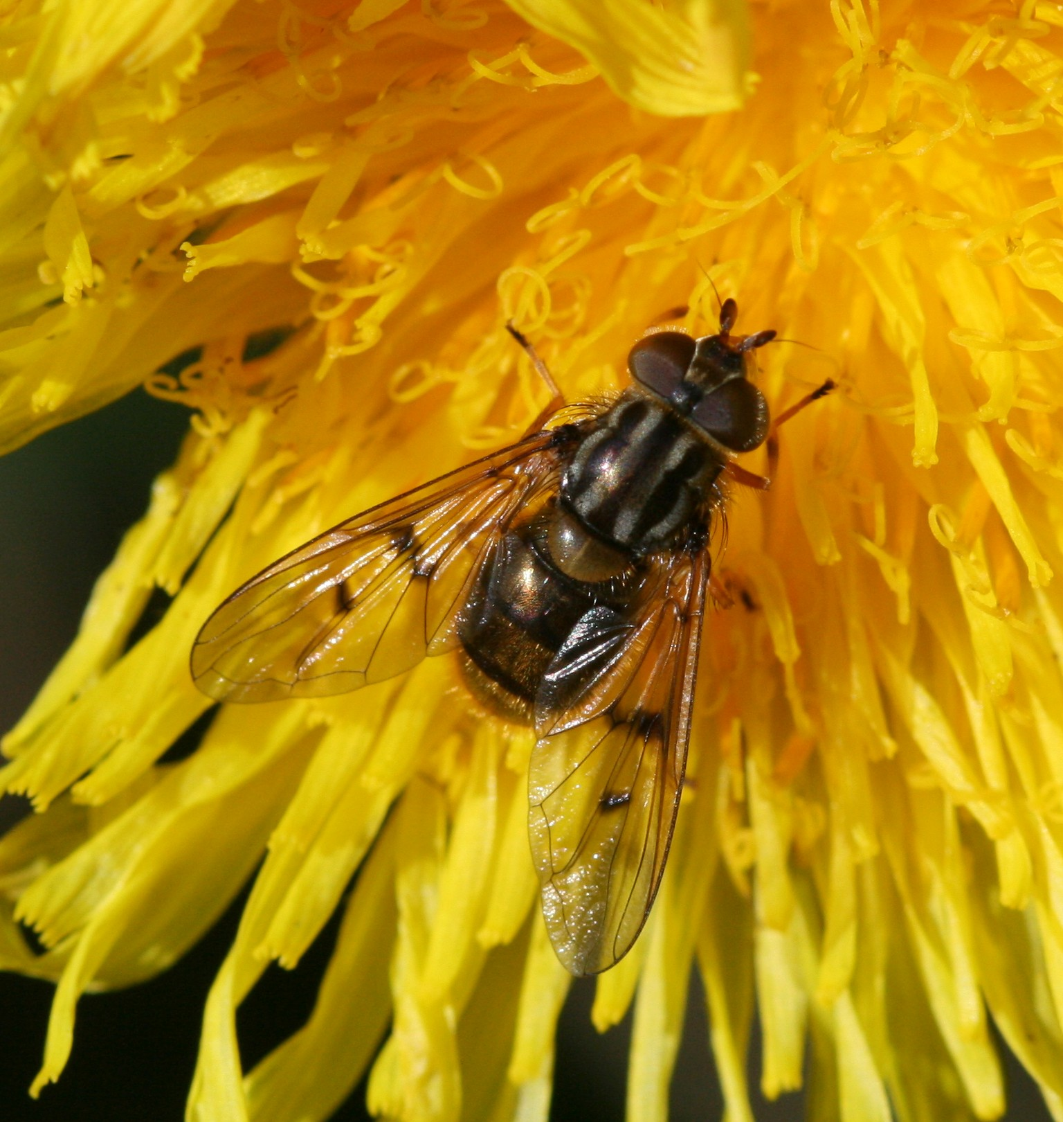 Ferdinandea cuprea (female)